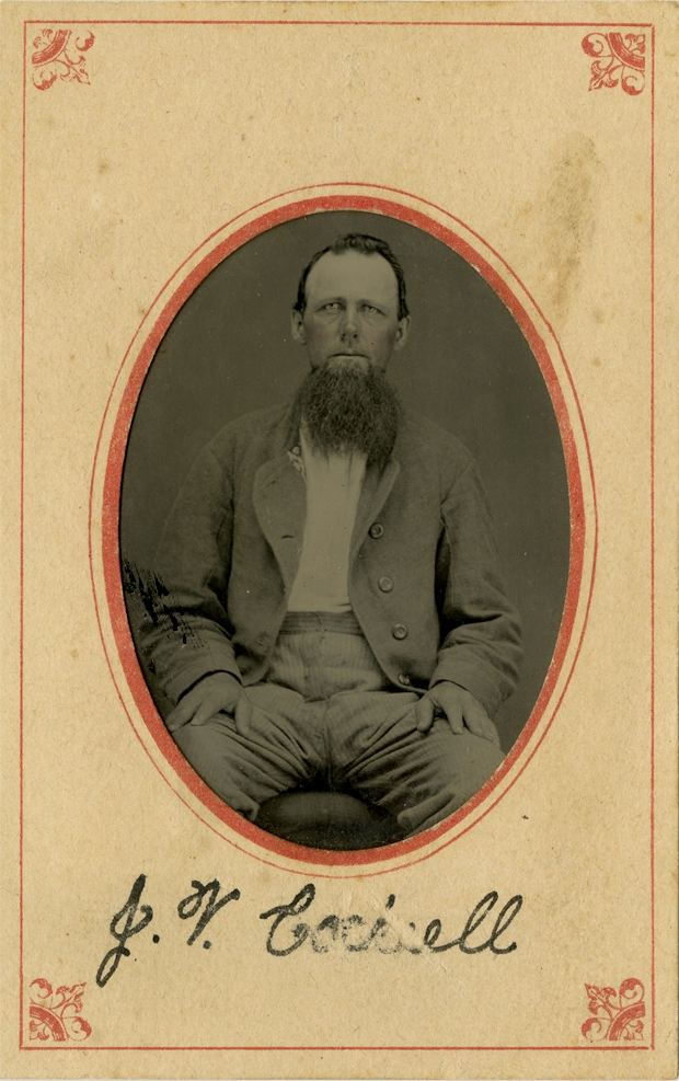 Jeremiah V. Cockrell; he joined the Missouri State Guard as a second lieutenant, and in 1862 he entered the regular Confederate army as a captain, becoming commander of a regiment in August 1862. In the spring 1864, during a skirmish in Jasper County, Missouri, he was severely wounded and left the Confederate army as a colonel, Wilson’s Creek National Battlefield; WICR 31999